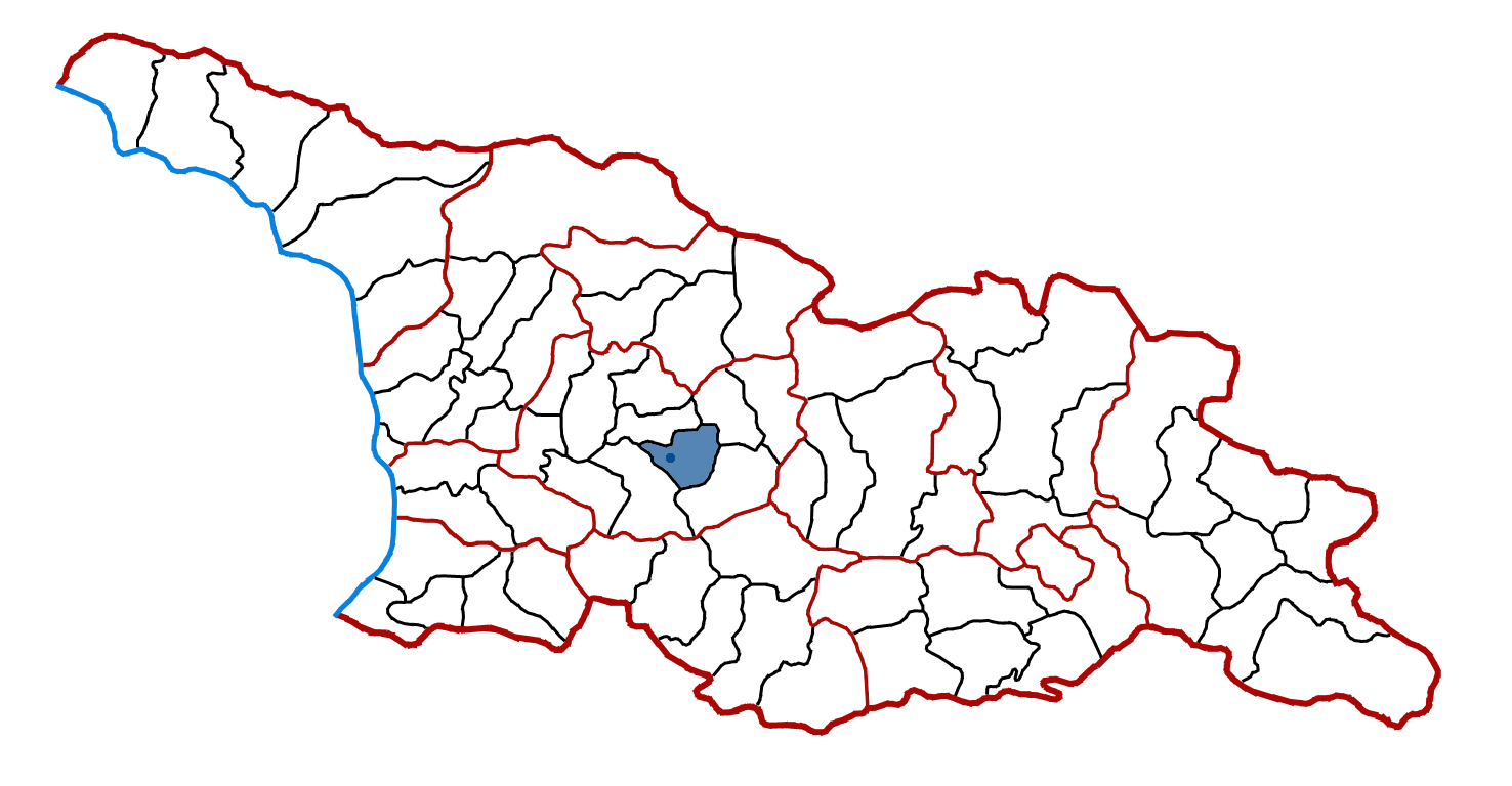 Location of Zestaponi district in georgia